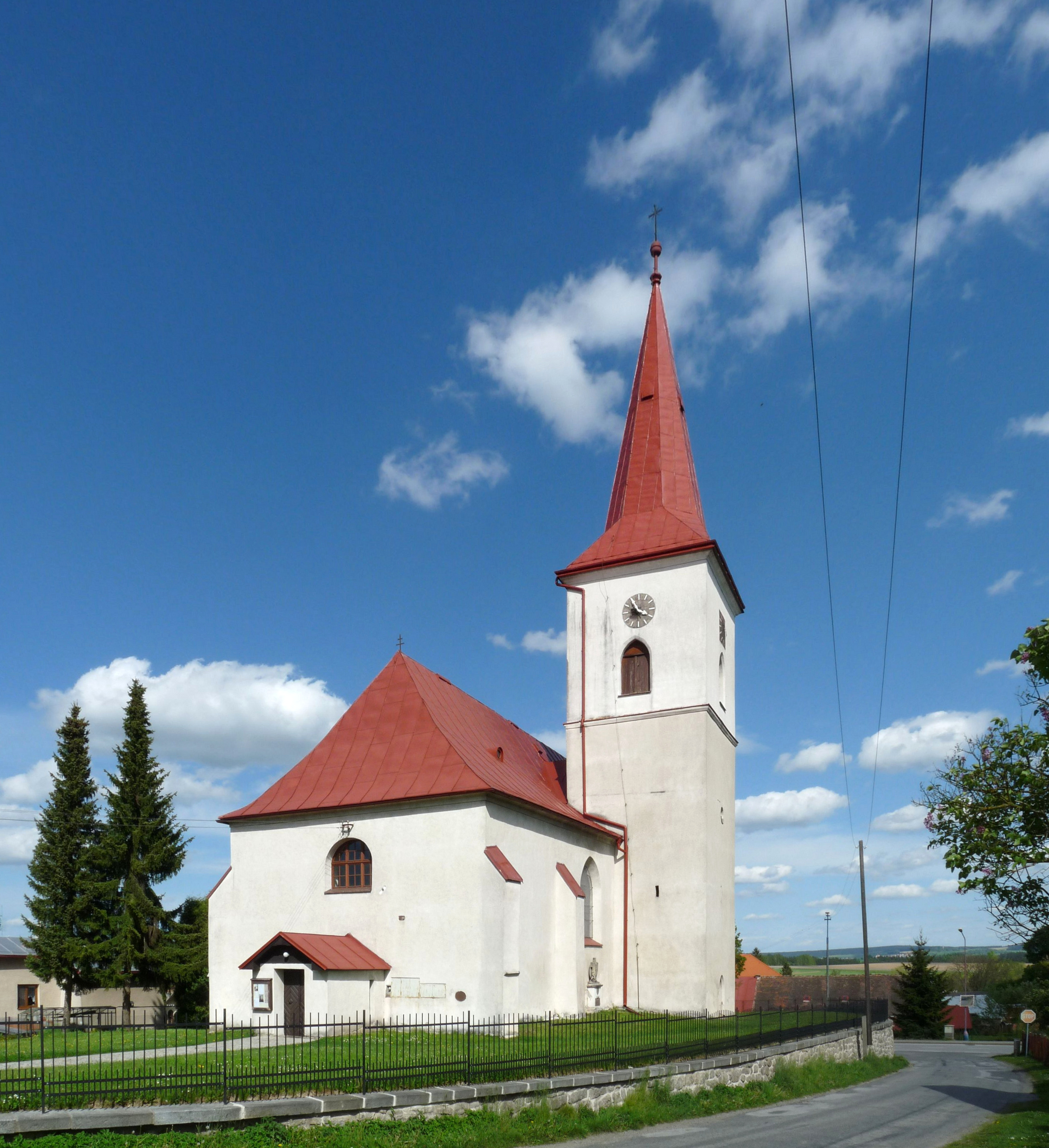 Church of Saint Bartholomew in the town of Česká Belá, Havlíčkův Brod District, Vysočina Region, Czech Republic.